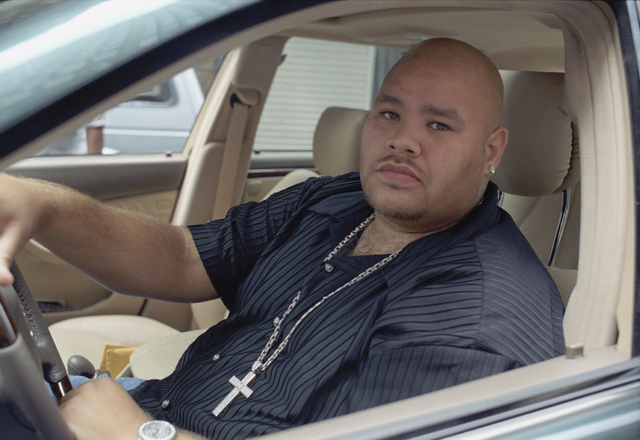 at puerto rico parade in nyc 1999